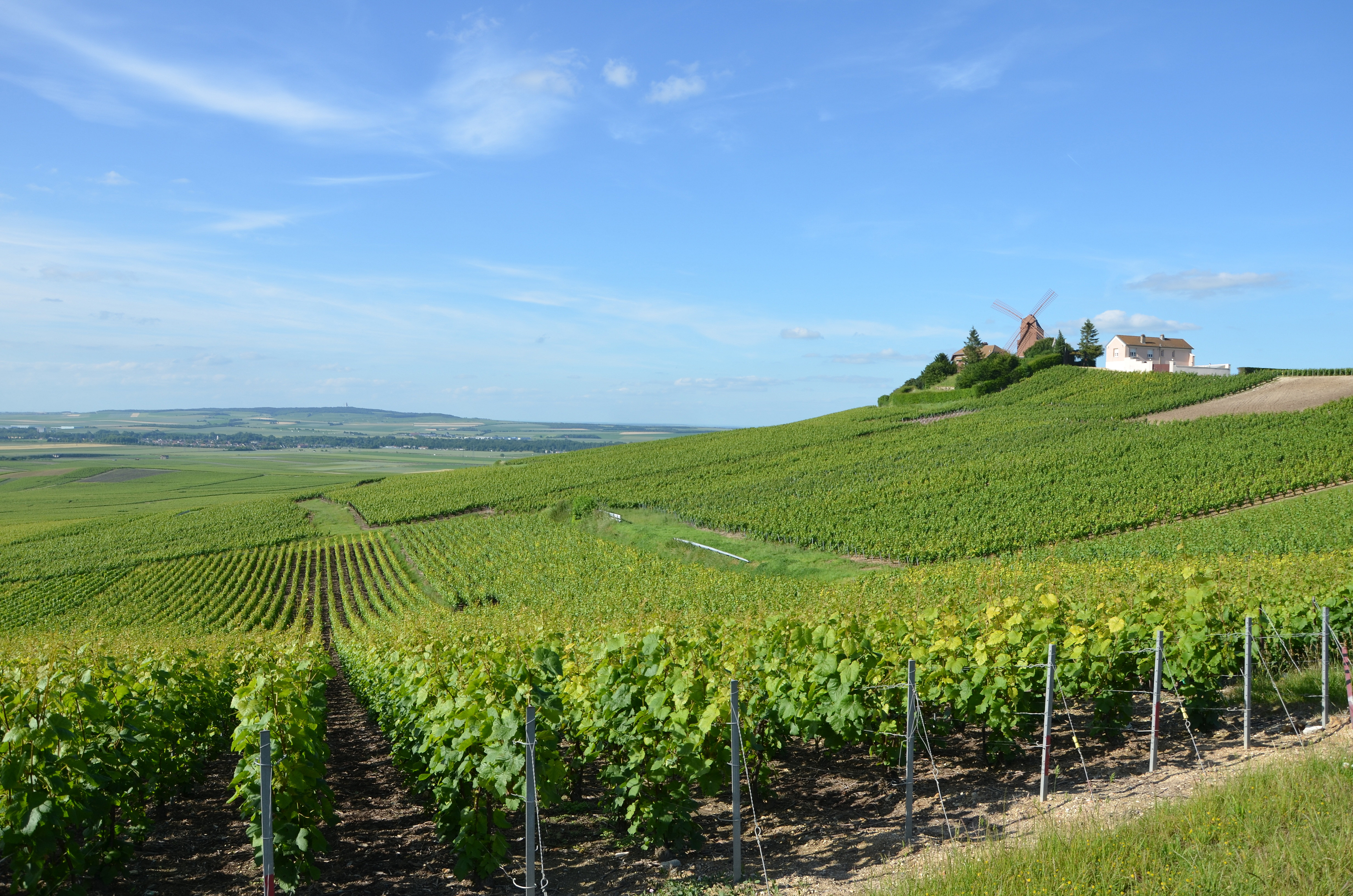 Vineyards of Champagne near Verzenay, Marne, France.